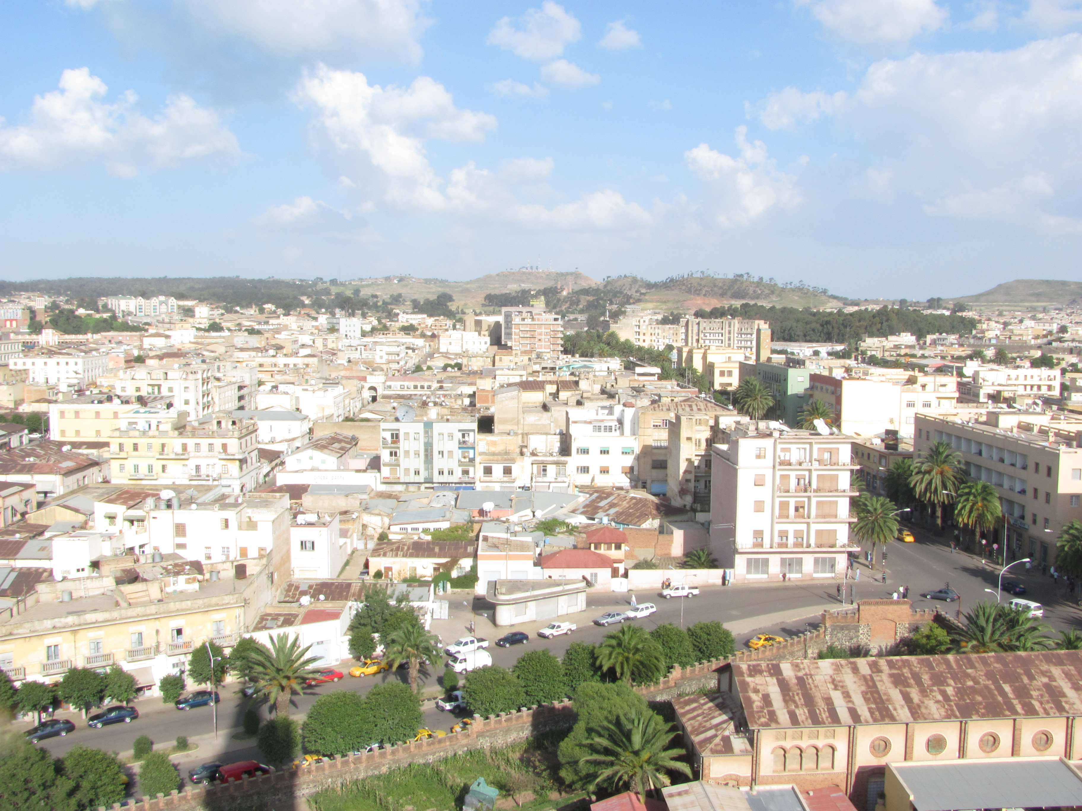 Asmara Panorama